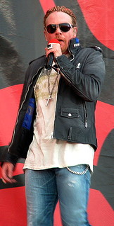 Axl Rose at the Download Festival in Donington, England.